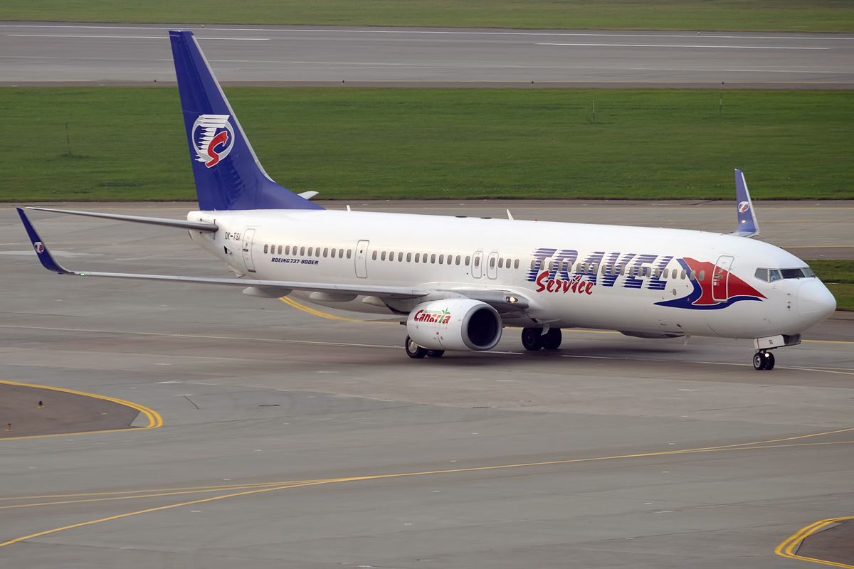 Travel Service, OK-TSI, Boeing 737-9GJ ER